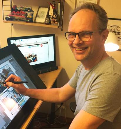 Per Demervall